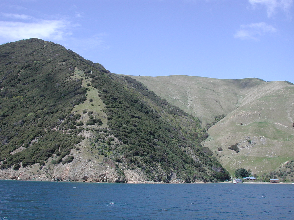 West coast of Forsyth Island, New Zealand, view into Sunday Bay